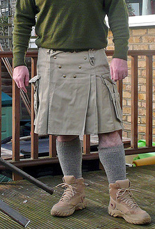 A beige contemporary kilt sold under the brand name 'Utilikilt'.